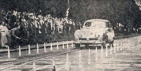 Eventual winner Arvo Karlsson drives his Austin Atlantic at the 1951 Jyväskylän Suurajot (Rally Finland).